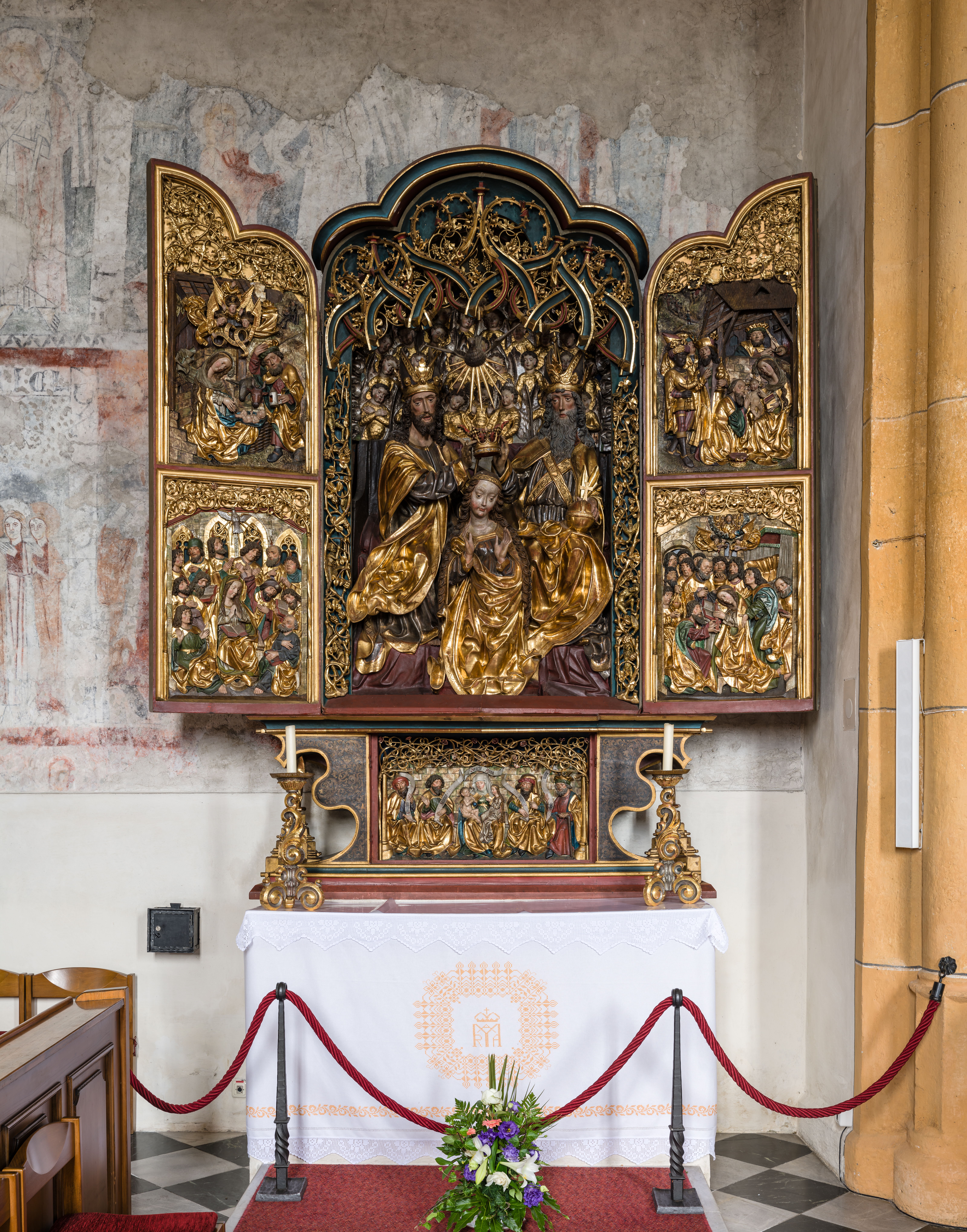 Winged altar at the pilgrimage church Maria Gail, municipality of Villach, Carinthia, Austria. Anonymous master of the Villach Workshop, around 1515.